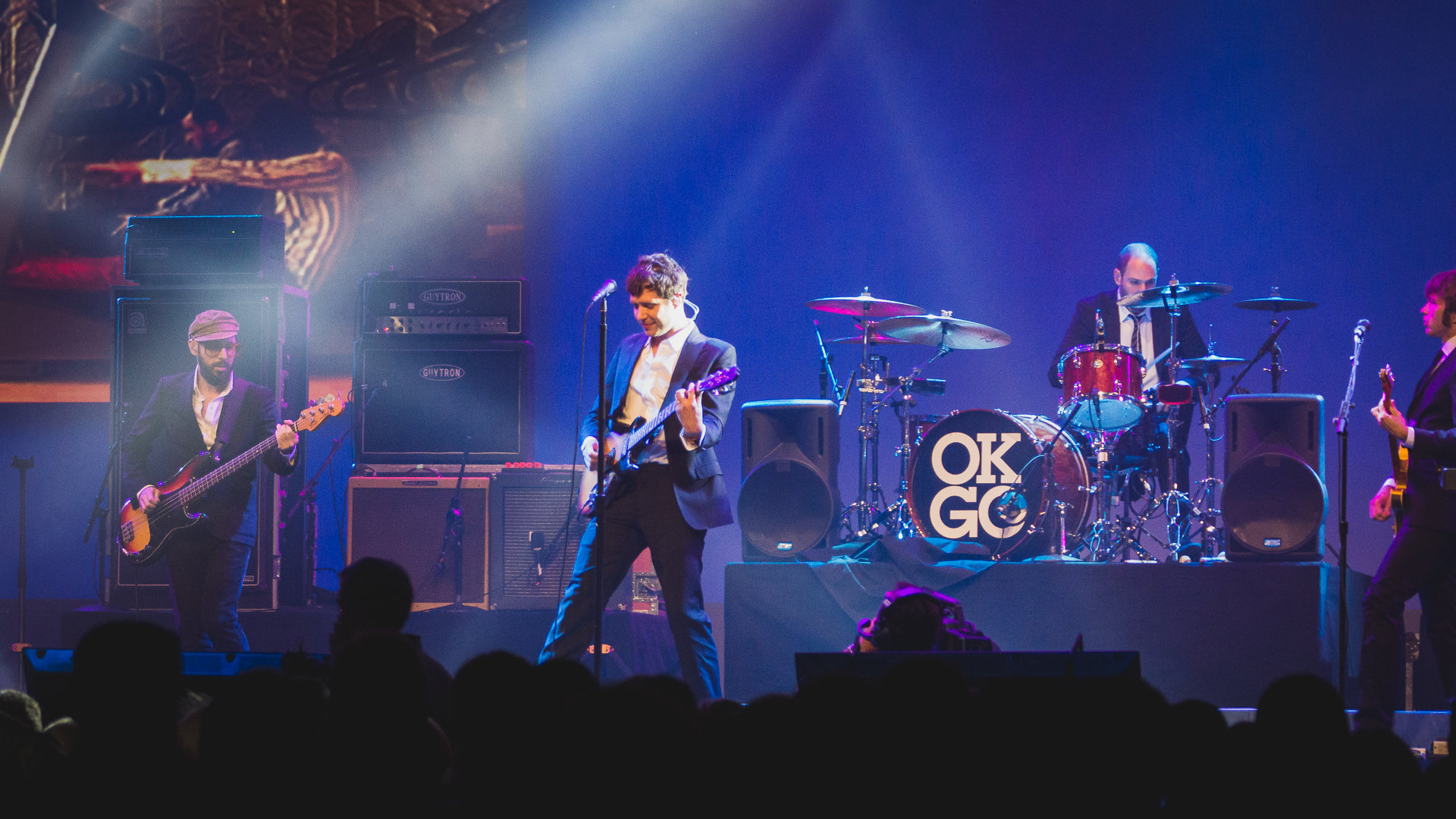 OK Go at Lotusphere 2012.